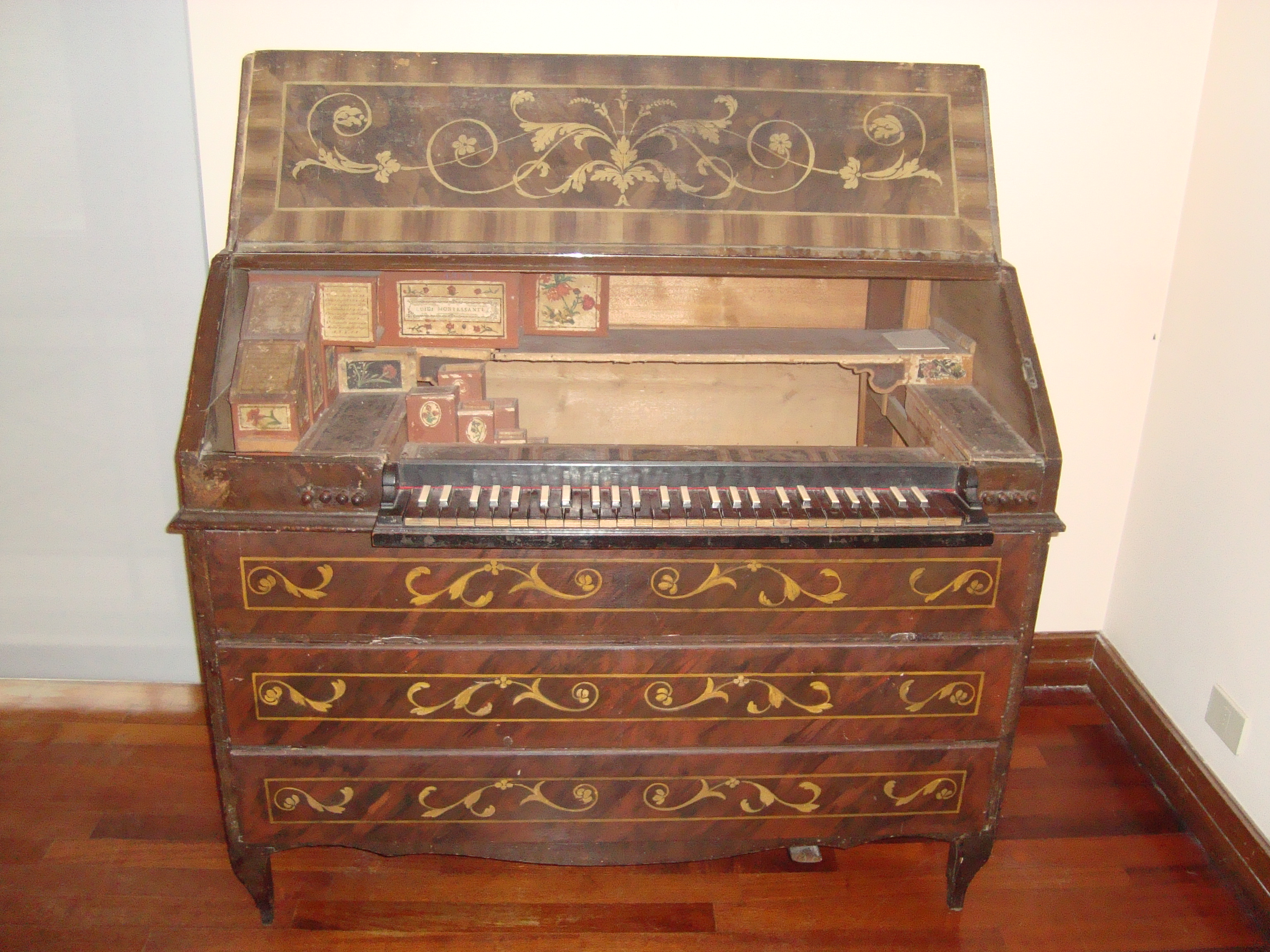 Orgues secrétaires datant du XVIIIe siècle par le manufacturier Montessunti, Mantova, Museo Nazionale degli Strumenti Musicali di Roma